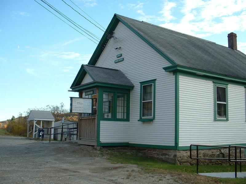 Town Hall, Savoy, Massachusetts Town Hall, Main Rd (Rte. 116), Savoy, MA 01256